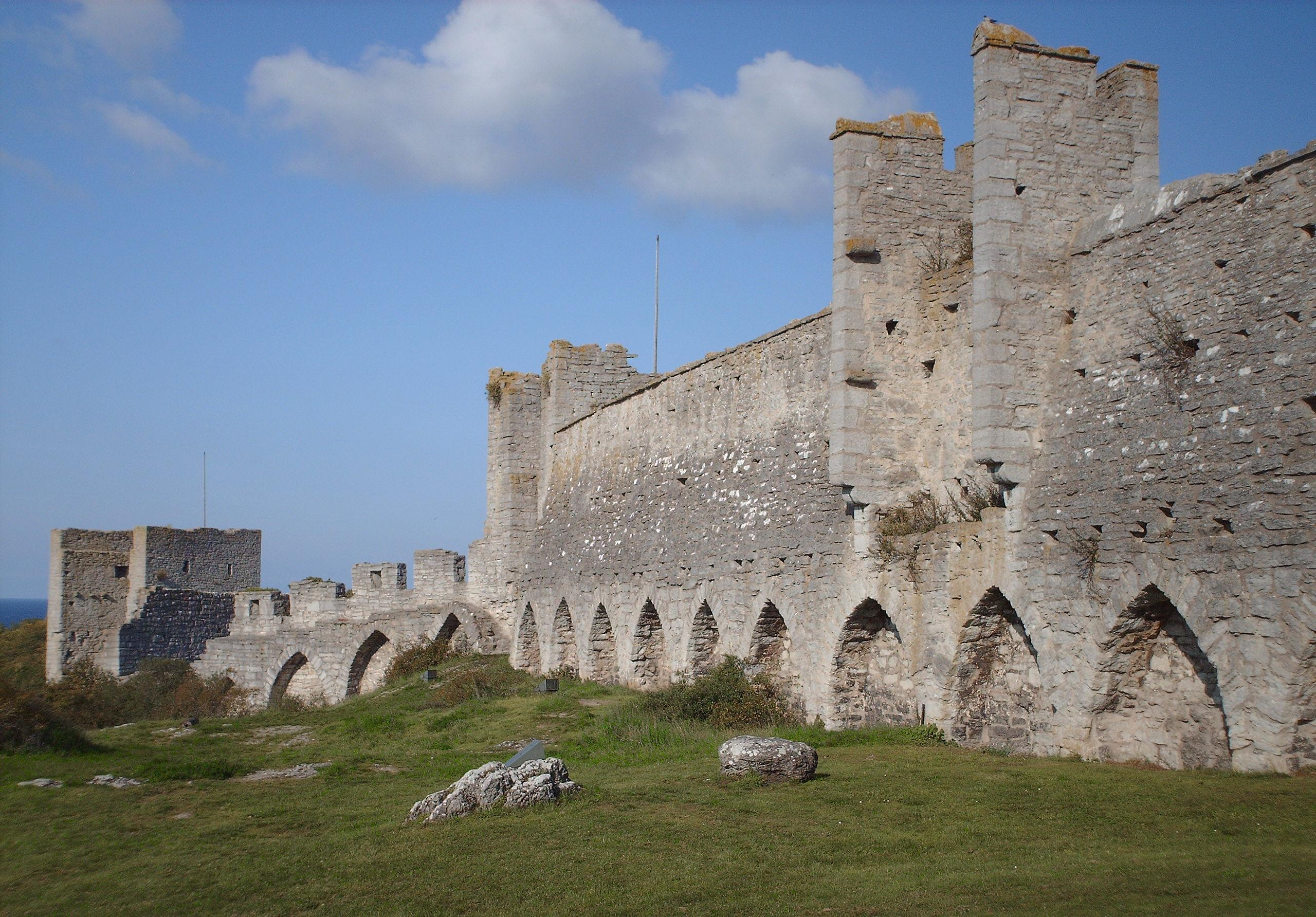 Visby City Wall